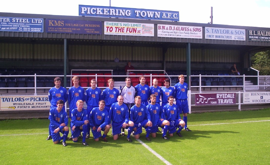 Squad photo of Pickering Town 2008-09